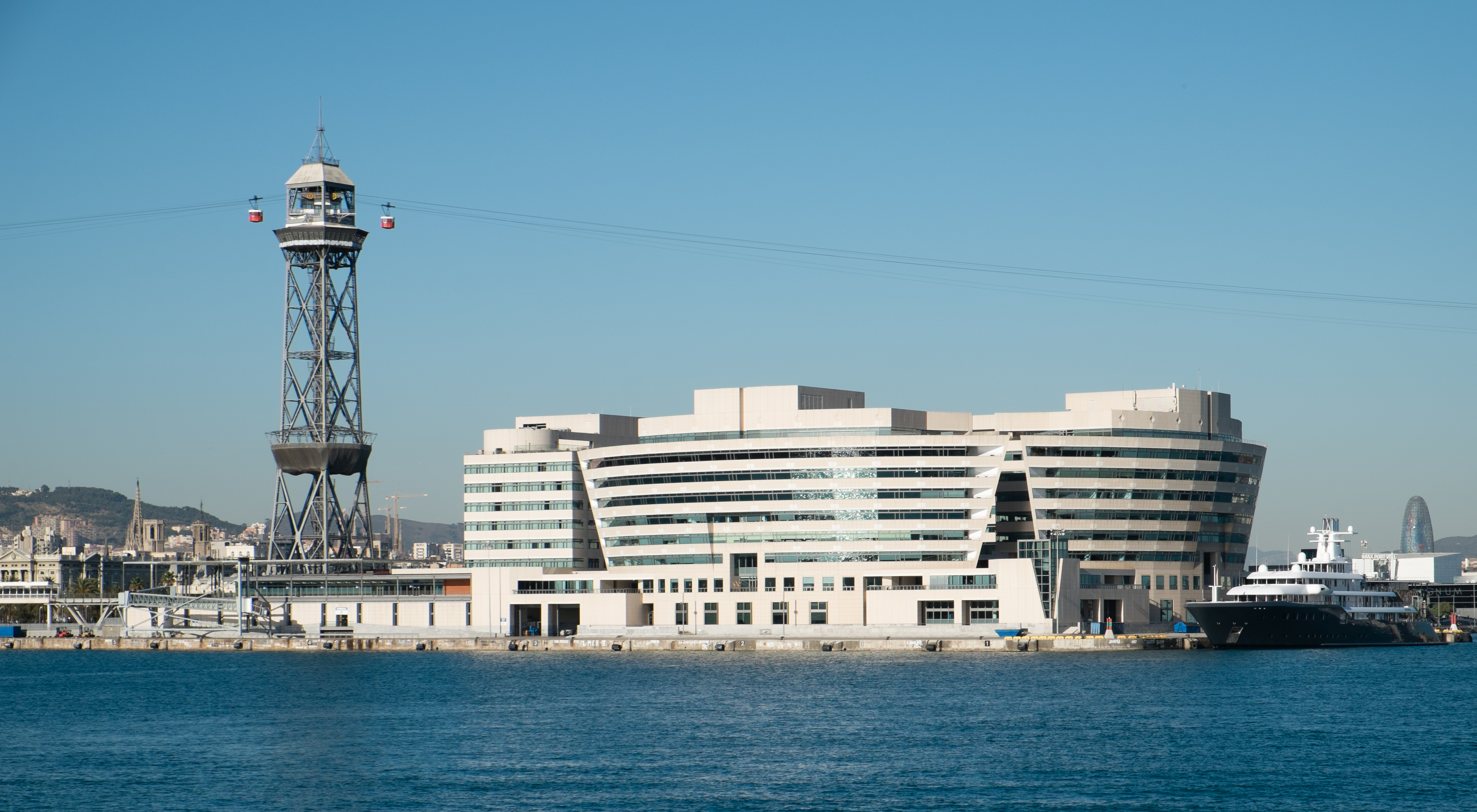 Barcelona World Trade Center and Torre de Jaume I